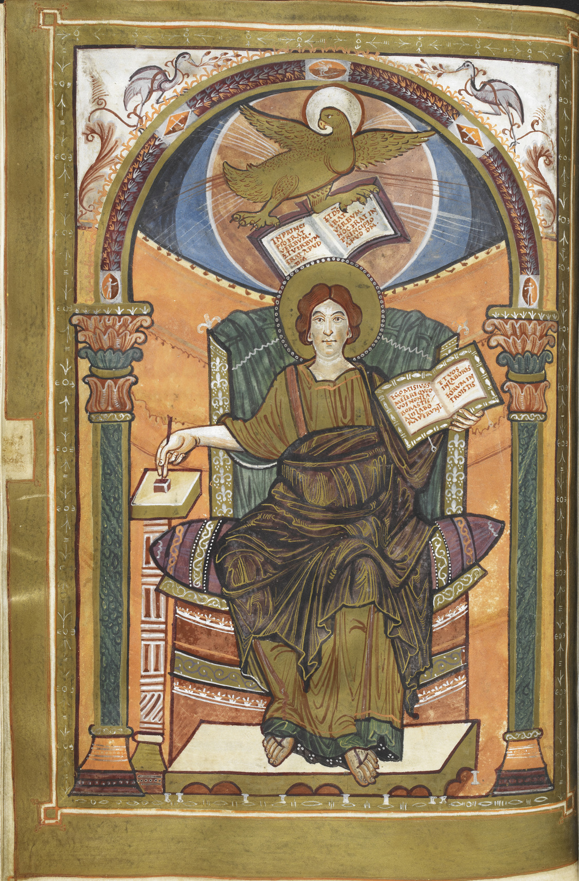 Miniature of an Evangelist portrait of John.